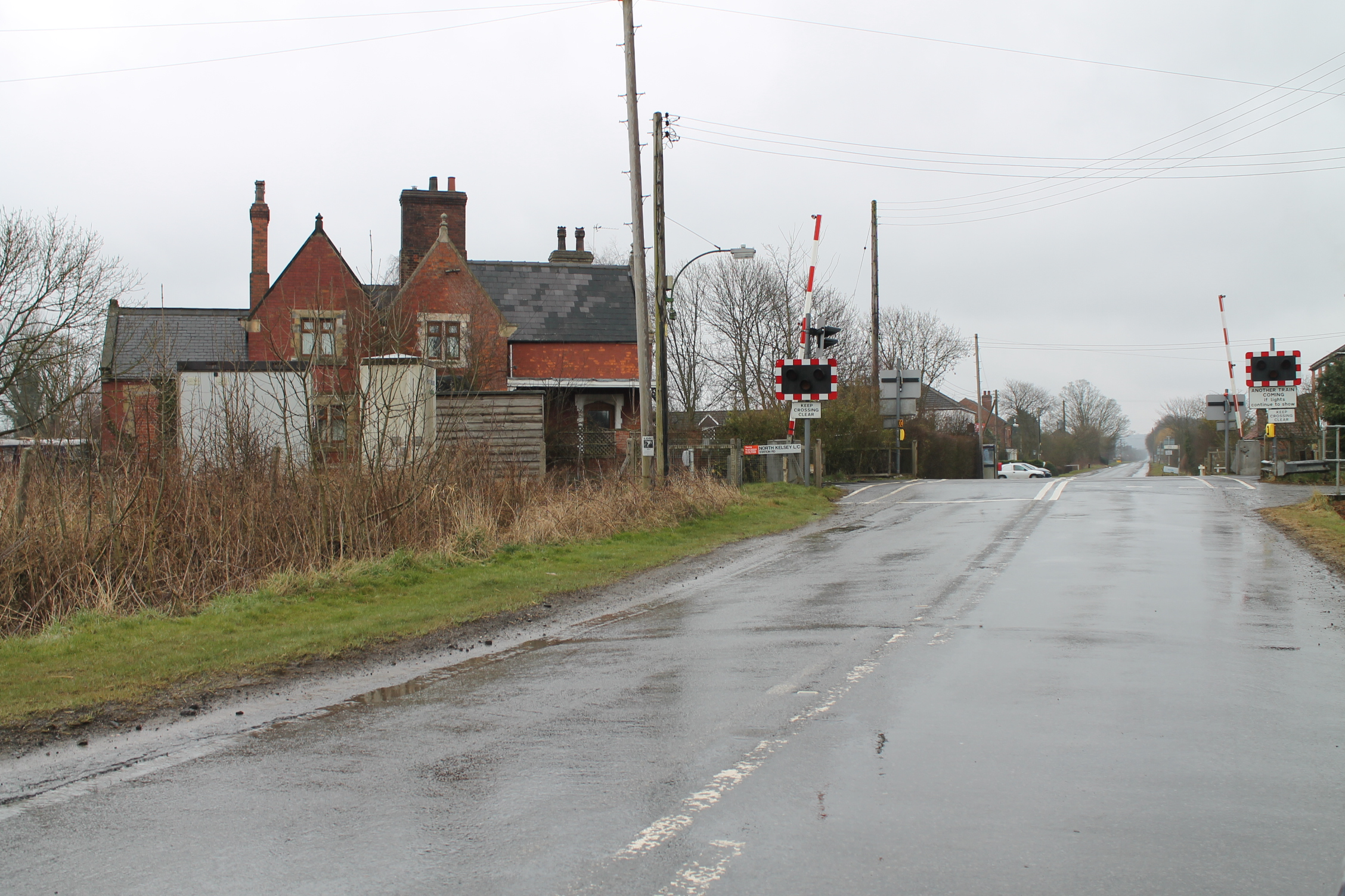 North Kelsey Level Crossing